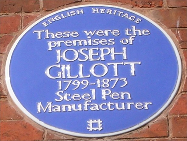 Blue plaque to Joseph Gillott on the wall of his Victoria Works pen factory in the Jewellery Quarter of Birmingham, England. Photographed by me 6 April 2007. Oosoom